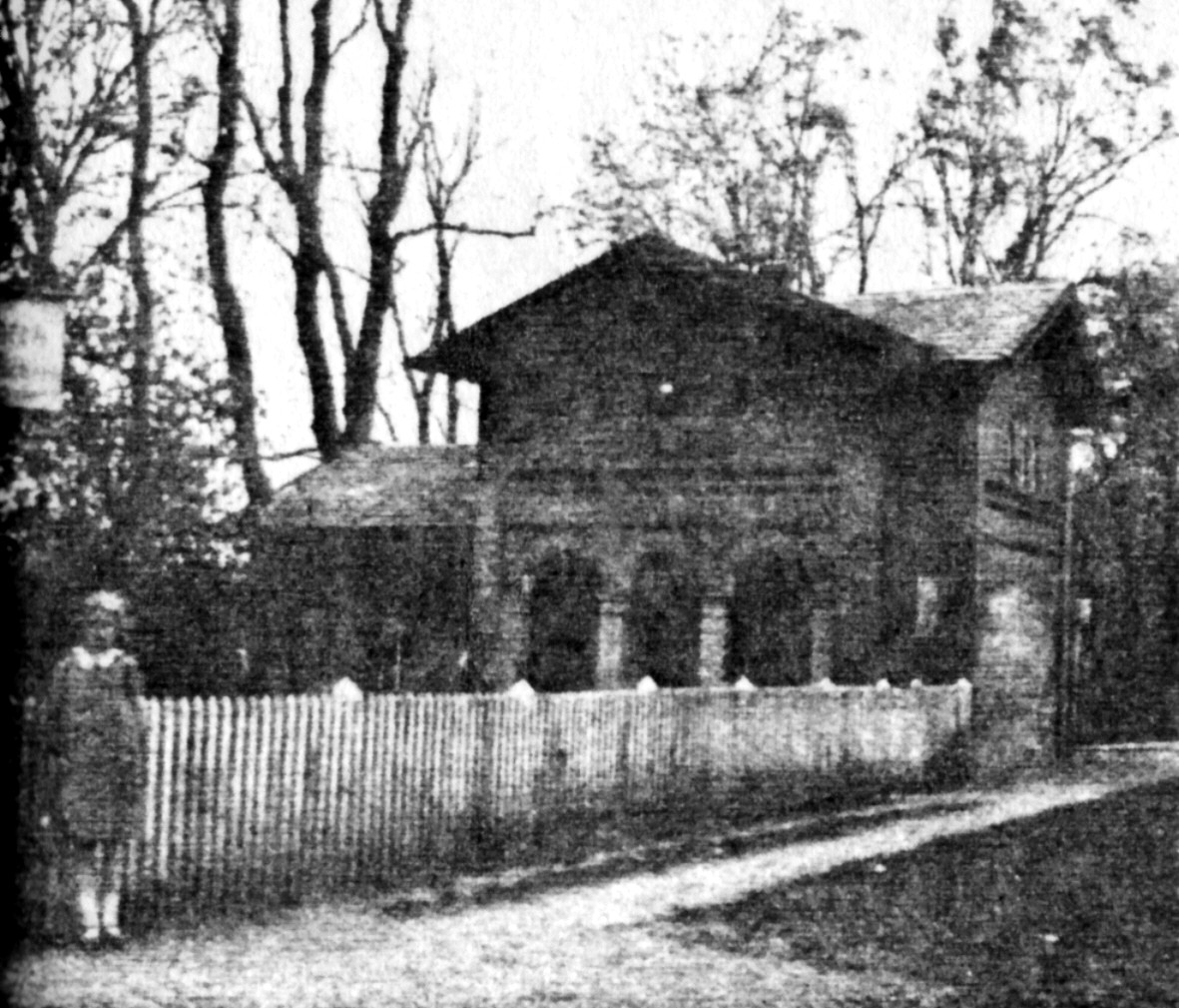 Guardhouse of the former Railway Towngate in Lübeck; erected in 1854, demolished after 1934